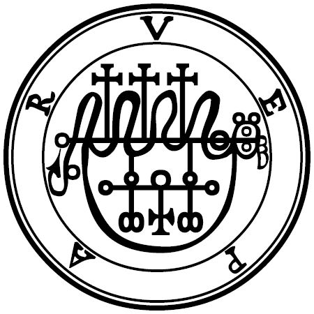 Vepar seal, THE BOOK OF THE GOETIA OF SOLOMON THE KING (1904)